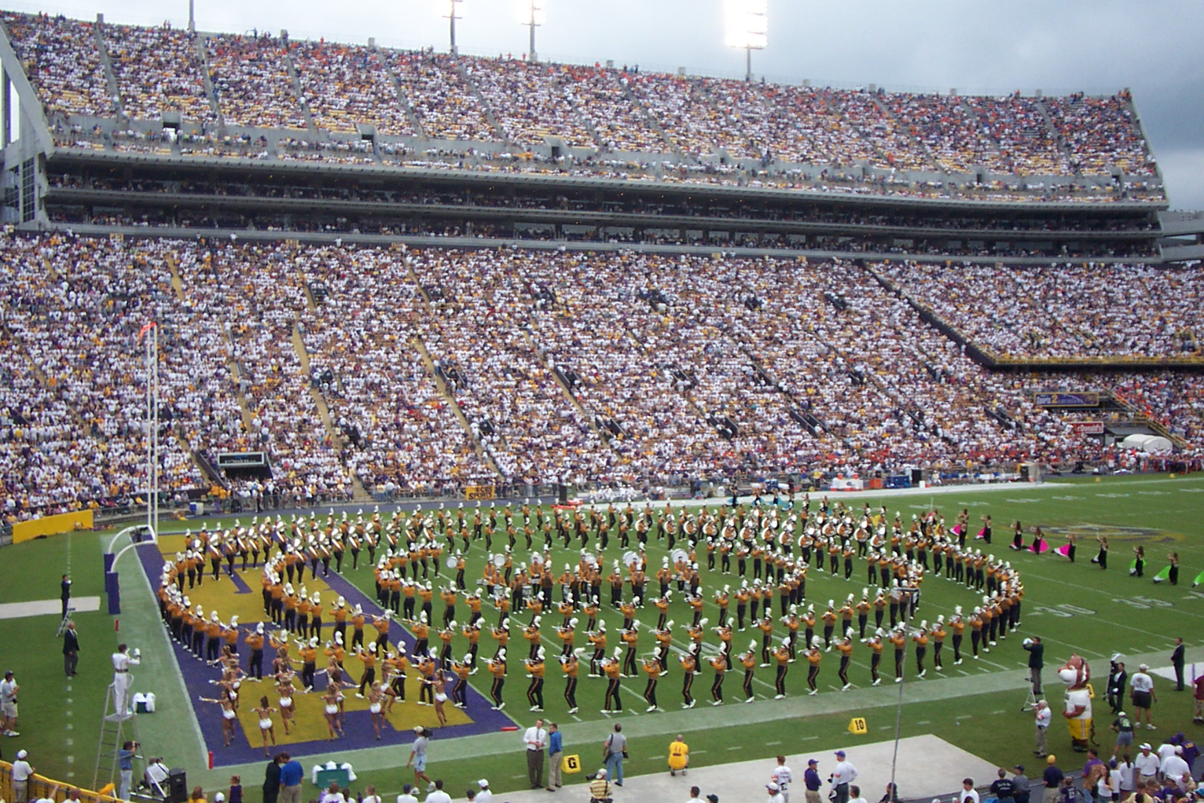 LSUbandcircle